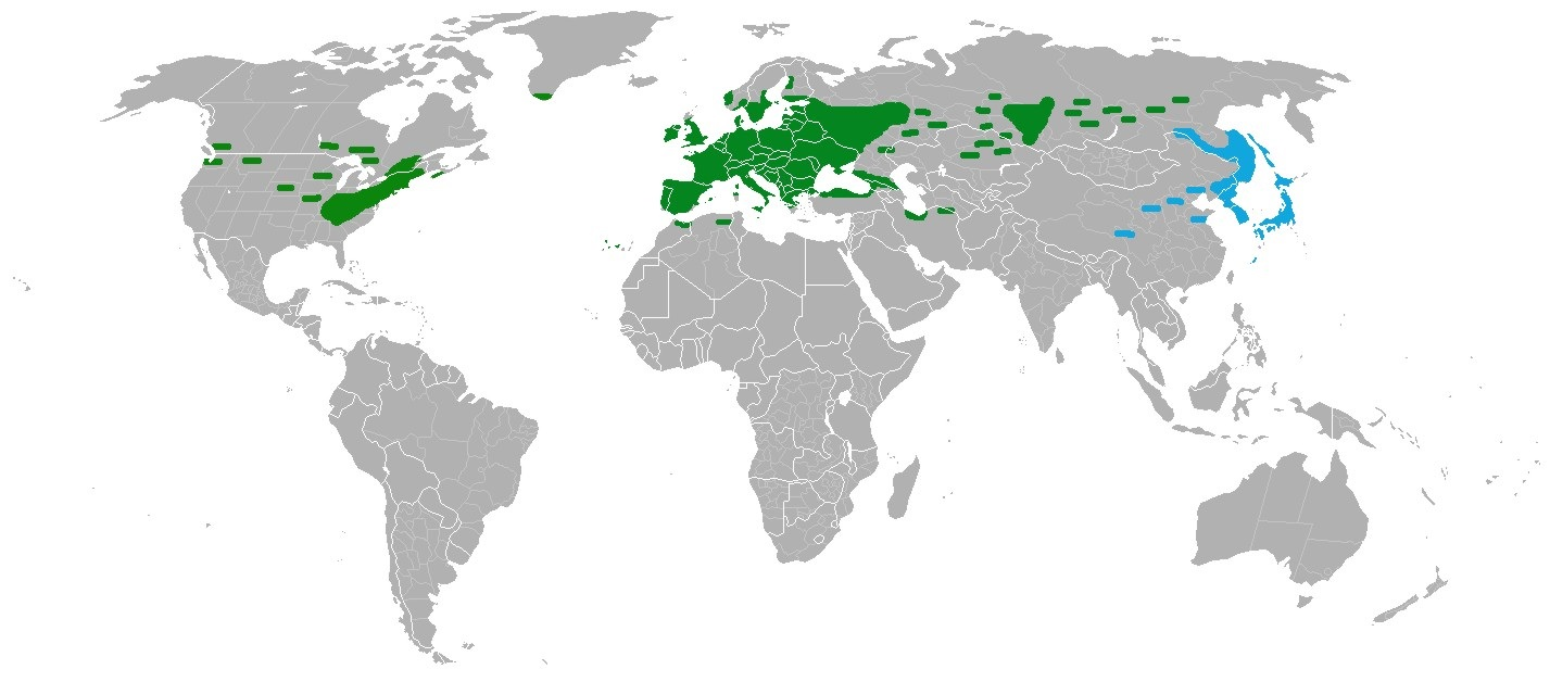 Map of distribution of Chelidonium majus (green subsp. typicum, blue subsp. grandiflorum) Sources: Den virtuella floran PLANTS USDA This biogeographical map image could be re-created using vector graphics as an SVG file. This has several advantages; see Commons:Media for cleanup for more information. If an SVG form of this image is available, please upload it and afterwards replace this template with vector version available|new image name . It is recommended to name the SVG file "Chelidonium majus distrib.svg" – then the template Vector version available (or Vva) does not need the new image name parameter. This biogeographical map image was uploaded in the JPEG format even though it consists of non-photographic data. This information could be stored more efficiently or accurately in the PNG or SVG format. If possible, please upload a PNG or SVG version of this image without compression artifacts, derived from a non-JPEG source (or with existing artifacts removed). After doing so, please tag the JPEG version with Superseded|NewImage.ext and remove this tag. This tag should not be applied to photographs or scans. For more information, see BadJPEG .